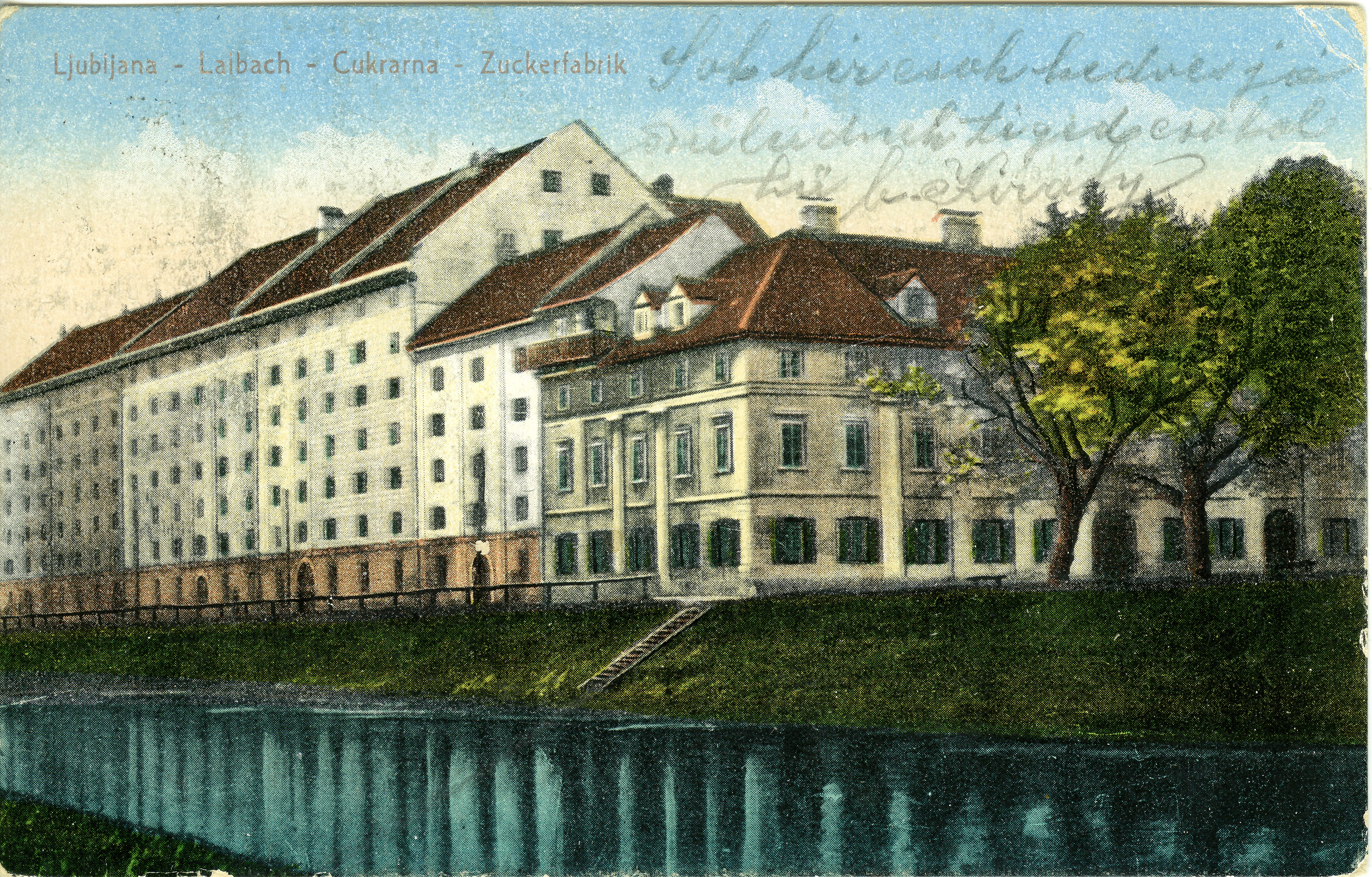 Postcard of Cukrarna.